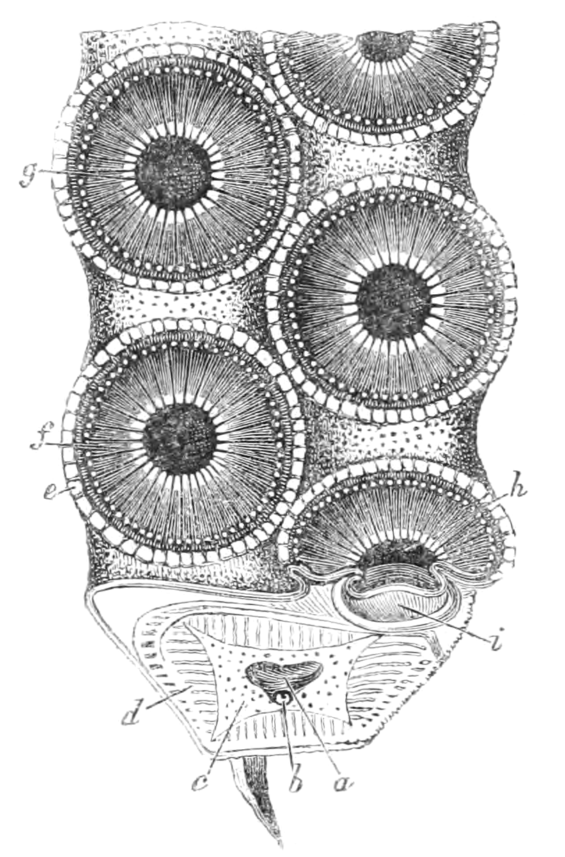 Illustration from Natural History: Mollusca (1854), p. 60 - "Structure of Sucker".